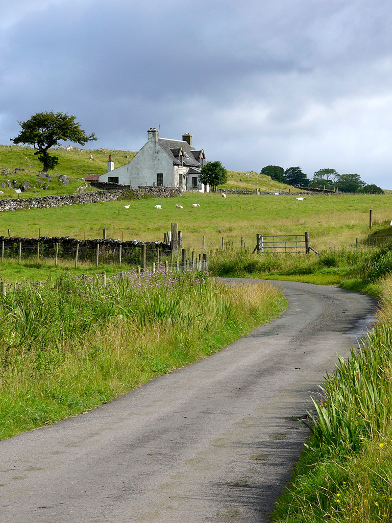 A house in the background, road in the foreground. Lismore, Scotland.